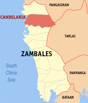 Map of Zambales showing the location of Candelaria